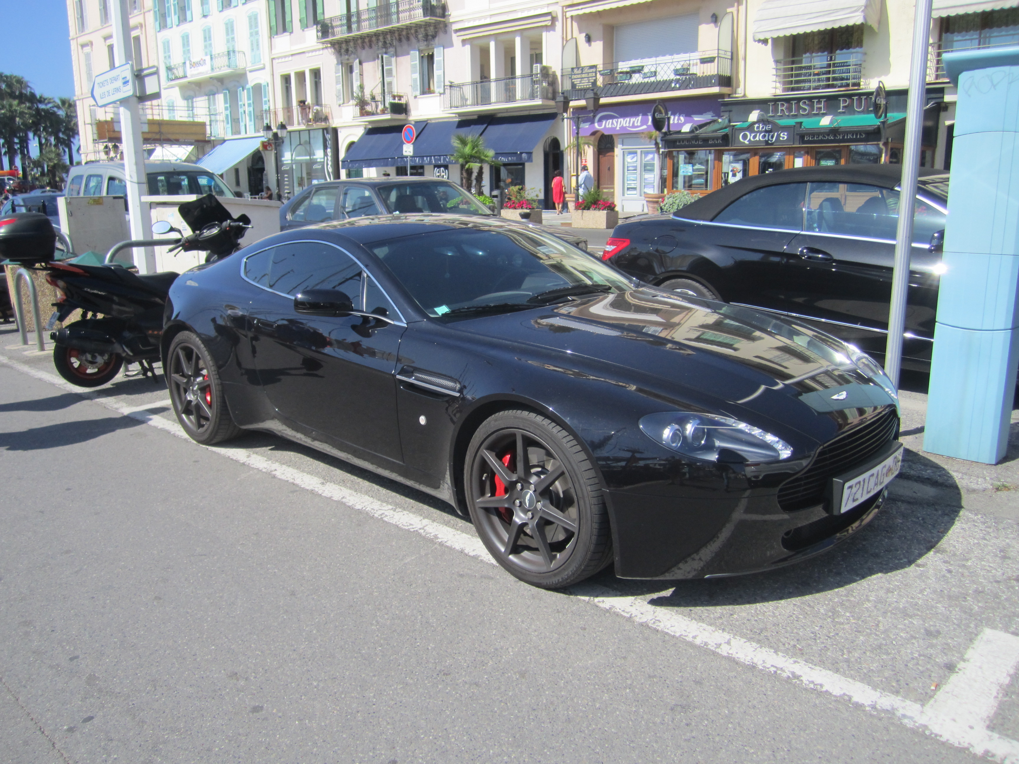 A 2010 AM V8 Vantage coupé photographed in Cannes, France.